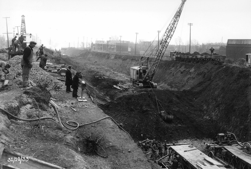 Expanding the riverbed to make way for twin collector sewers in Cote St. Paul (?), 1933